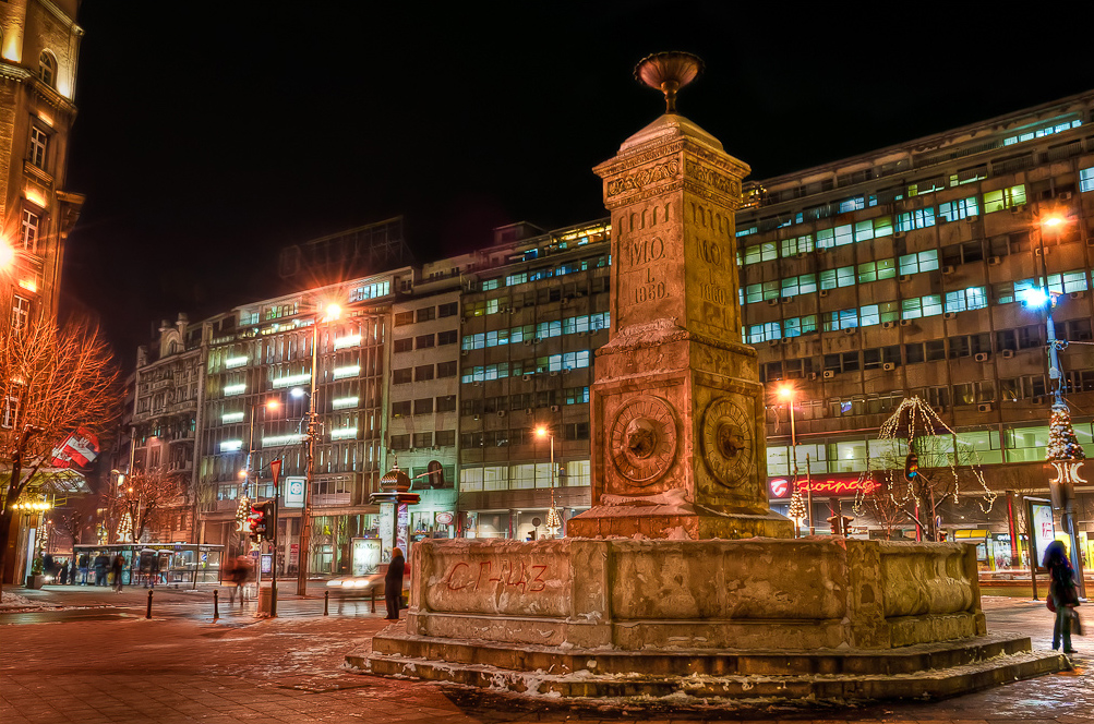 Terazije fountain